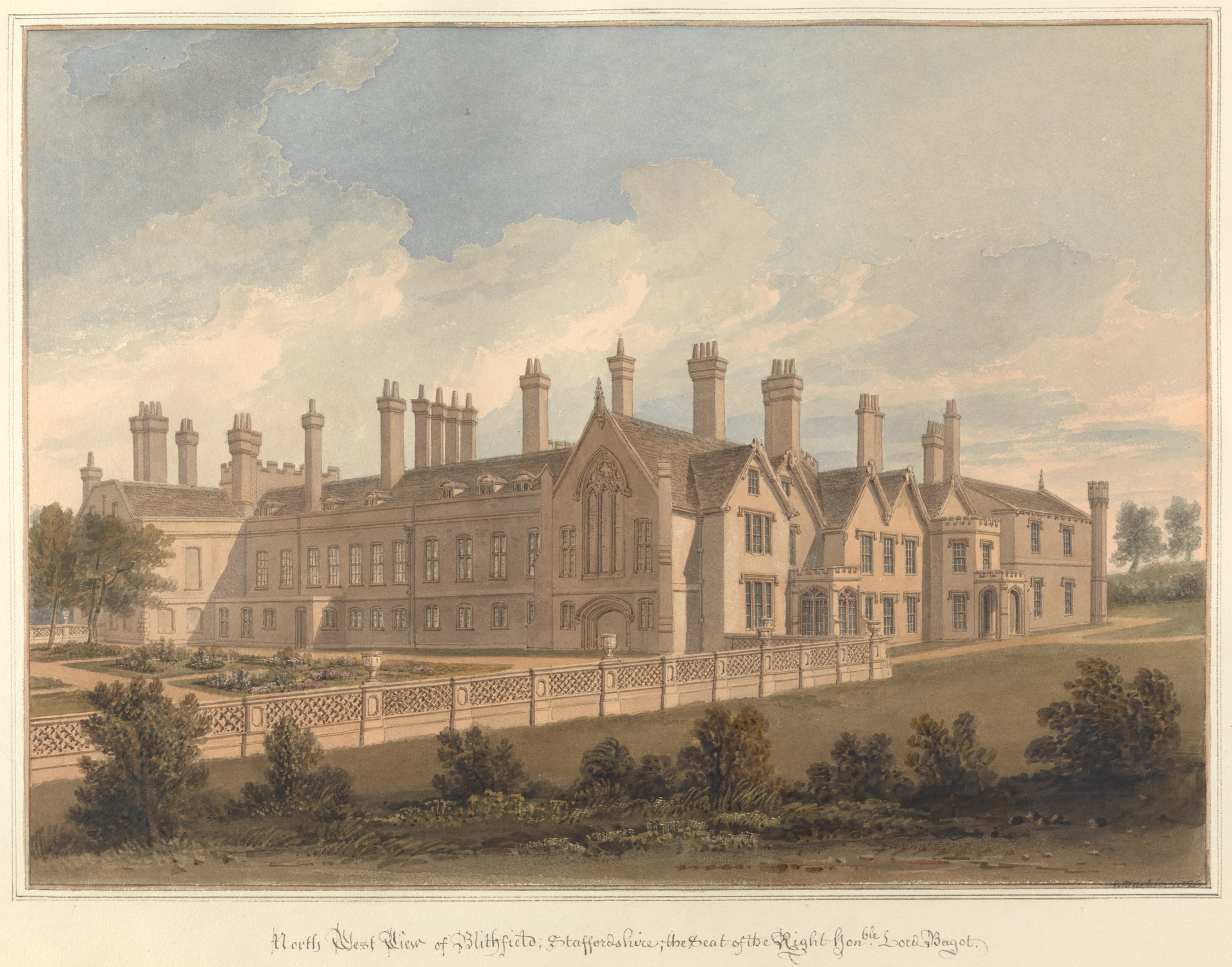 "North West View of Blithfield; Staffordshire, the Seat of the Right Hon'ble, Lord Bagot," watercolour, by John Buckler (1770-1851) and John Chessell Buckler (1793-1894). 20 1/2in. (52.1cm). Courtesy of the Paul Mellon Collection, Yale Center for British Art, Yale University, New Haven, Connecticut.